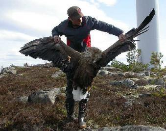 White-tailed Eagle Haliaeetus albicilla killed by collision with a wind turbine